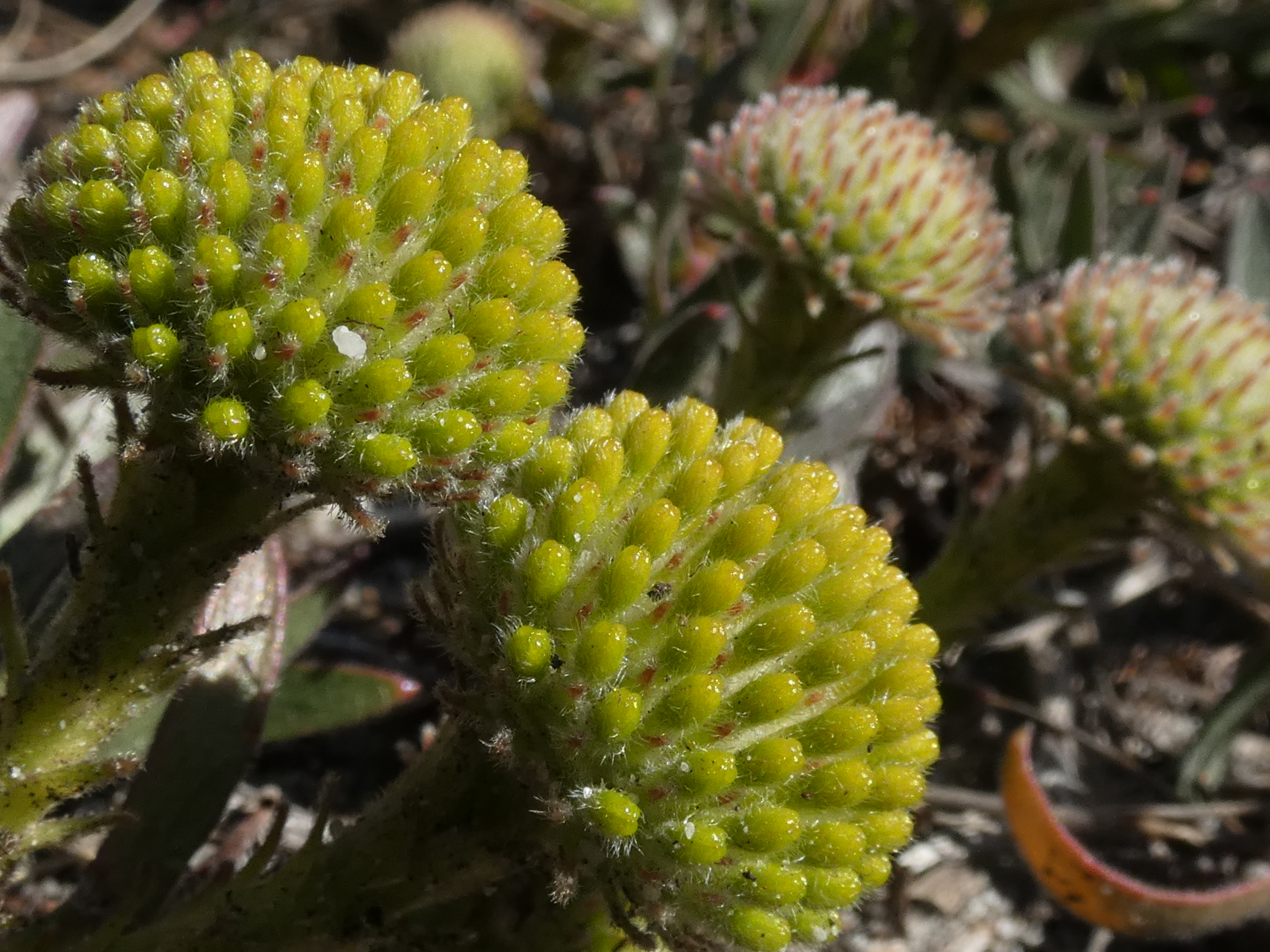 yellow-trailing pincushion Leucospermum prostratum, photographed at Hangklip, near Pringlebaai, Western Cape, South-Africa